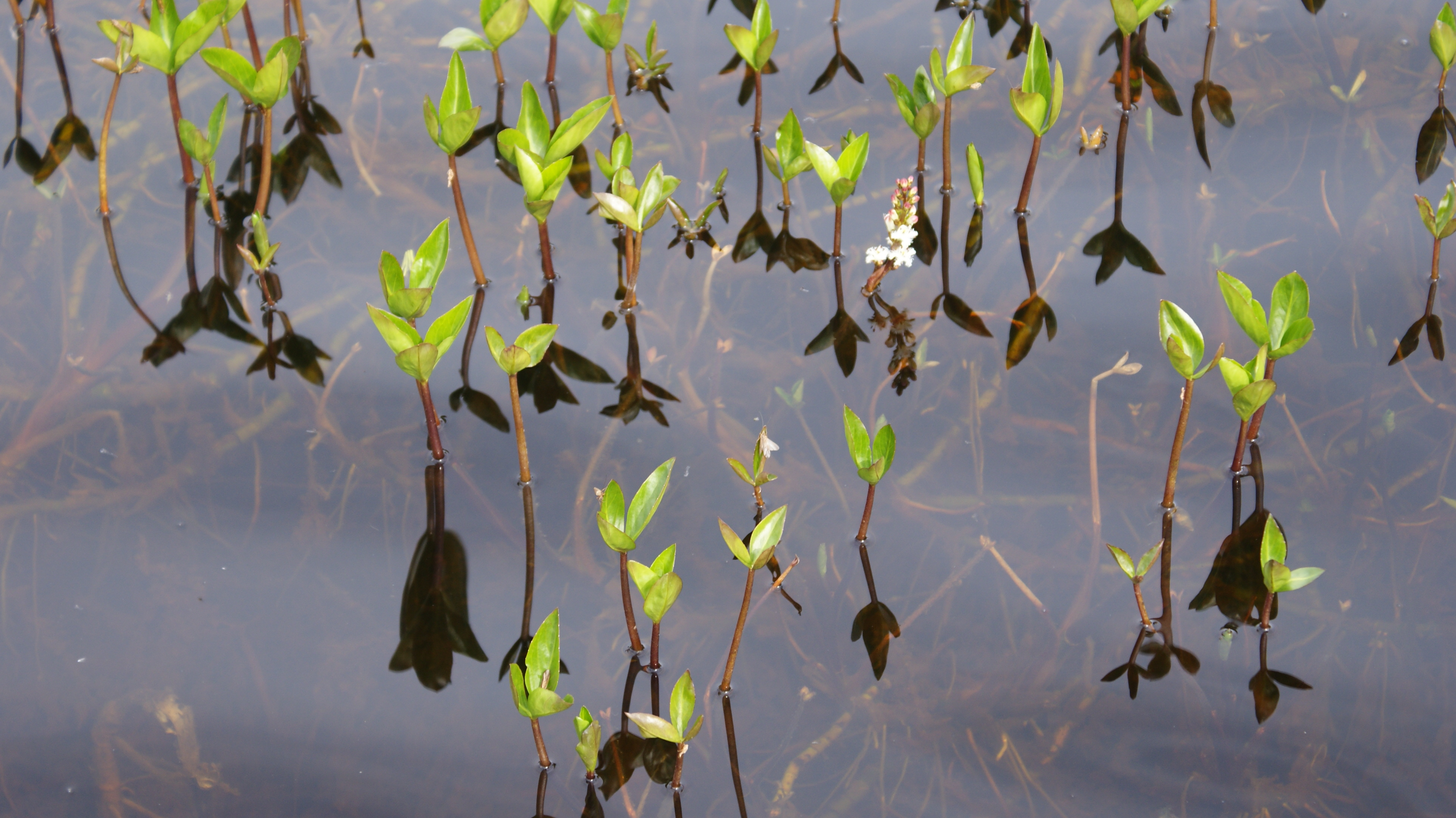 Plant overgrowth in the wetland tundra lake of the Tarajornitsut highland, in the inland part of central-western Greenland.